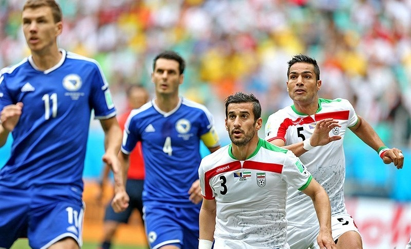 Bosnia and Herzegovina and Iran match at the FIFA World Cup